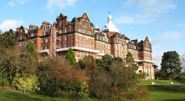 The Majestic Hotel The huge Majestic Hotel was built at the height of Harrogate's popularity as a spa in 1900. Unlike other hotels in the town [until the 'International' some 80 years later] it was made of brick and cost over a quarter of a million - a large sum in those days. The trees and bushes in the foreground mask the site of the former glazed 'winter garden' which was over 8000sq ft in area and was adorned with palm trees etc. The winter garden was damaged by a German bomb in 1941 and was demolished in the seventies. In 1955, the 5 star Majestic offered B&B from 32/6d [approx £1.63] and dinner from 12/6d [62p] - a bargain!